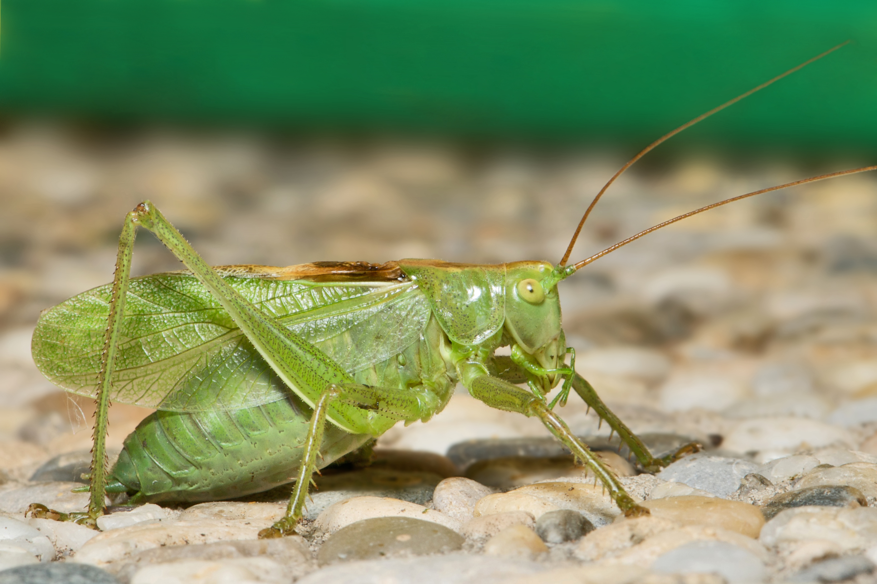 Tettigonia cantans is one of the biggest bush crickets (Tettigoniidae) in Central Europe. The specimen in the picture is a fully grown male with a length of 30 mm – measured from head to abdomen. Note it is missing its third left leg, which it probably lost to a predator.